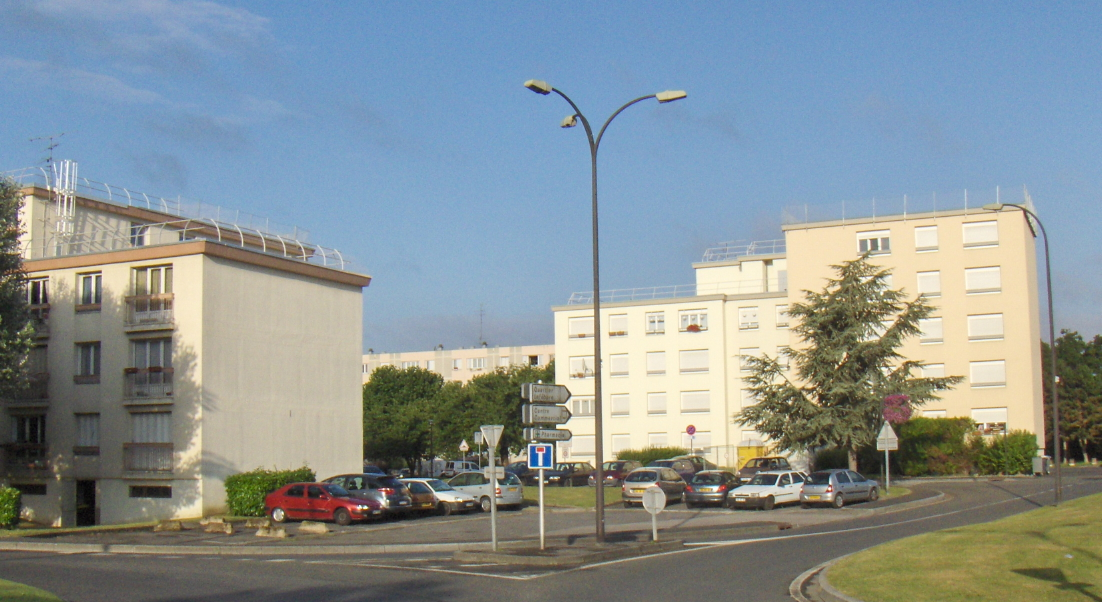 Quartier Lefébure, suburb of Chantilly